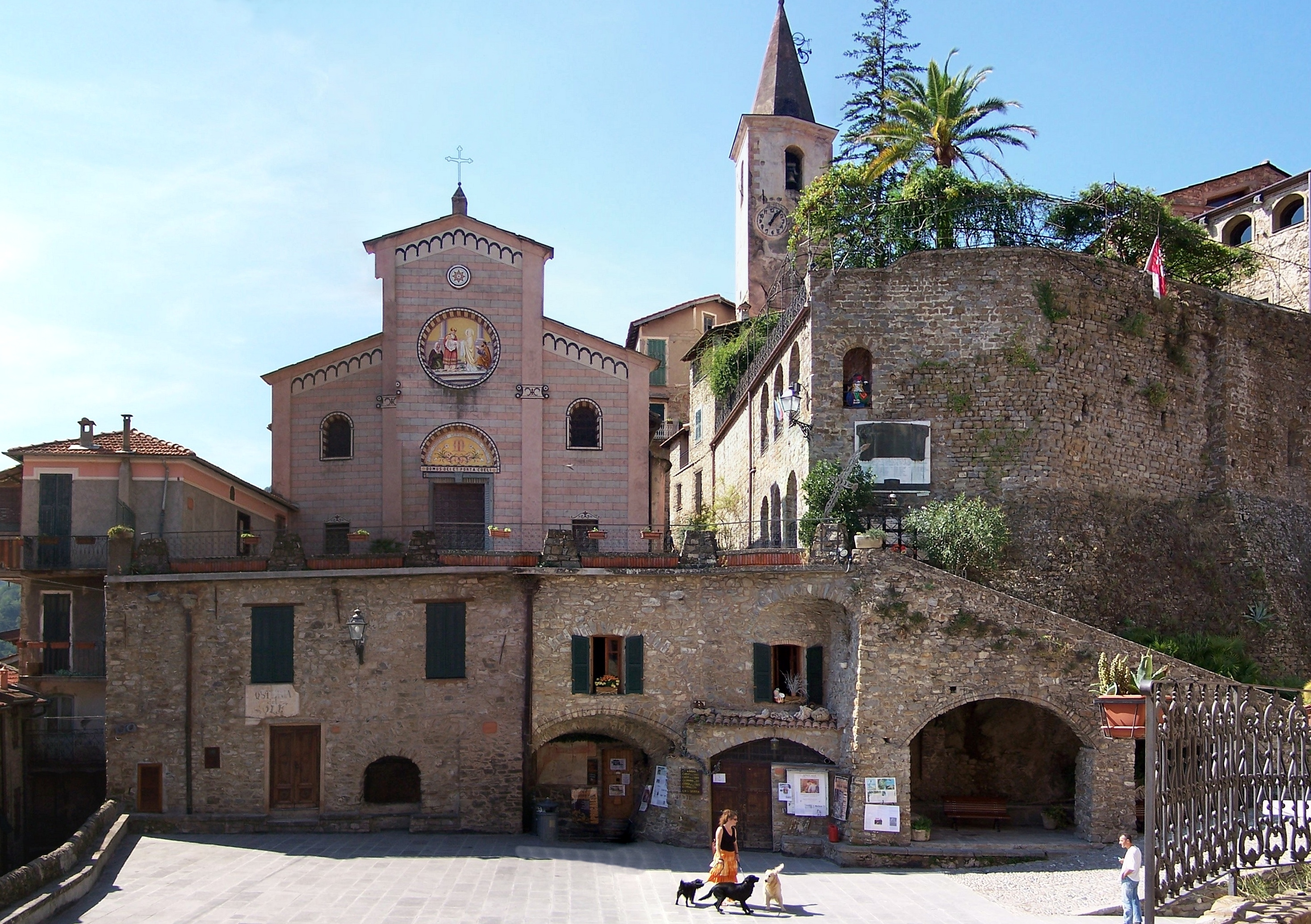 Apricale in Italy